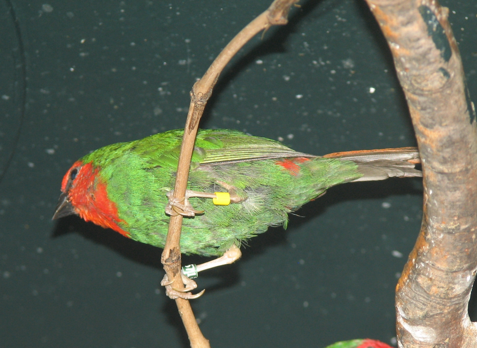 Red-throated Parrotfinch